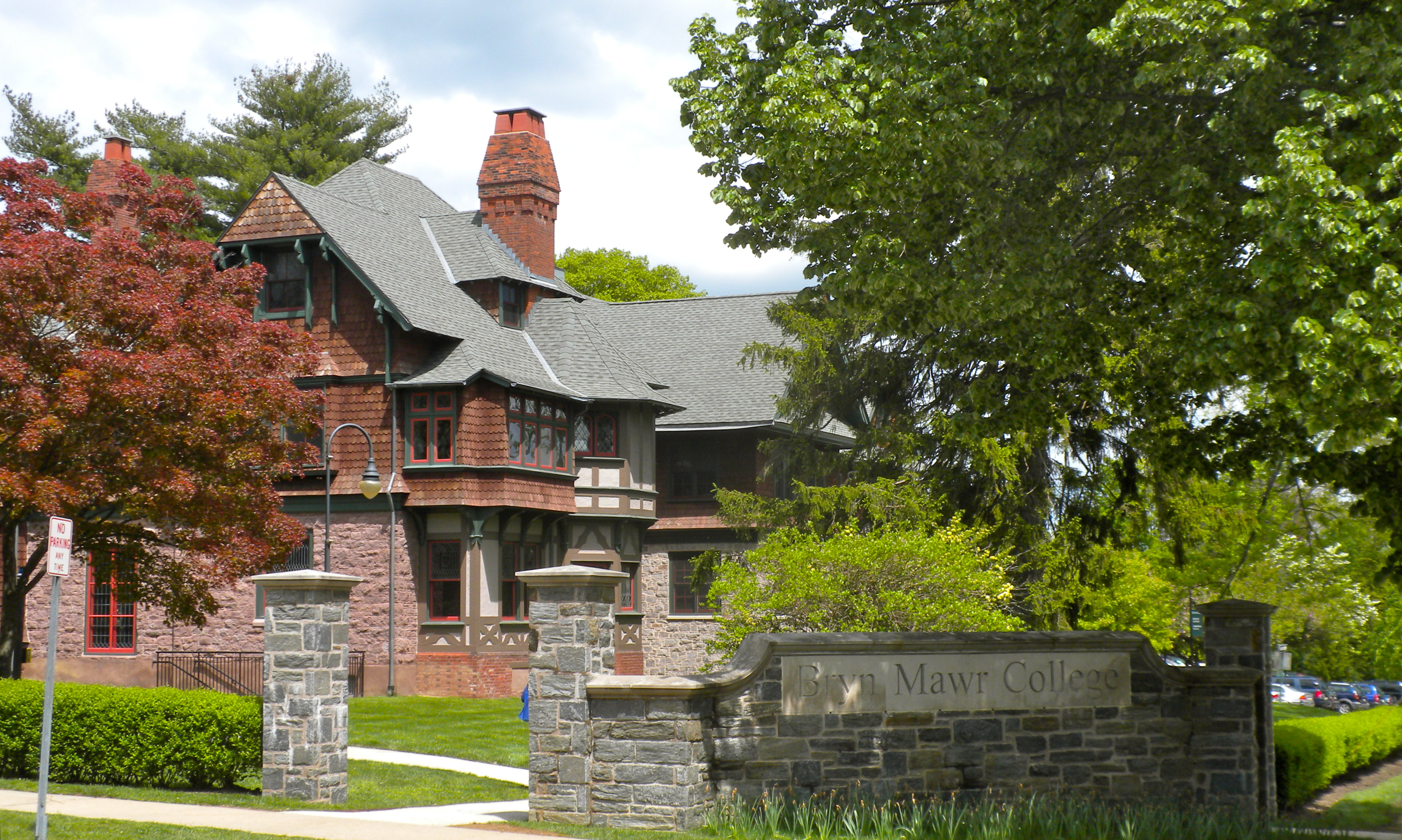 Entrance to Bryn Mawr College. "Robindale," the suburban house of Charles P. Perkins, was designed by architect Frank Furness and built by contractor Levi H. Focht, circa 1883. It was sold to John S. Clarke in 1896, who hired architect Will Price to make major alterations, 1898. In 1964 it was purchased by Bryn Mawr College, and housed the Owl Bookstore for 27 years. It is a contributing structure in the Bryn Mawr College Historical District, and on the NRHP since May 4, 1979. The campus historic district is between Morris Avenue, Yarrow Street and New Gulph Road in Bryn Mawr, Montgomery County, Pennsylvania.The house was restored in 1999 by architects Buell, Kratzer, Powell. Renamed the Benham Gateway Building, it houses the college's admissions office.